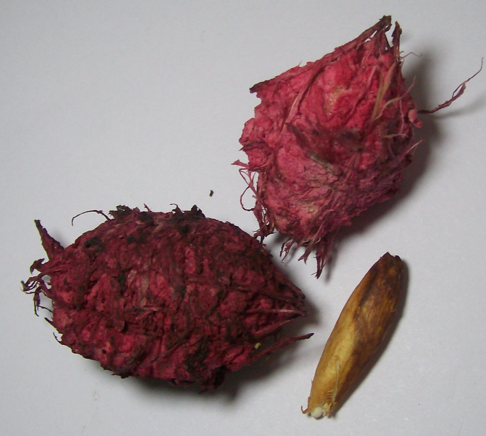 Terminalia catappa dry nuts without flesh and a kernel (Desi badam) that is edible.